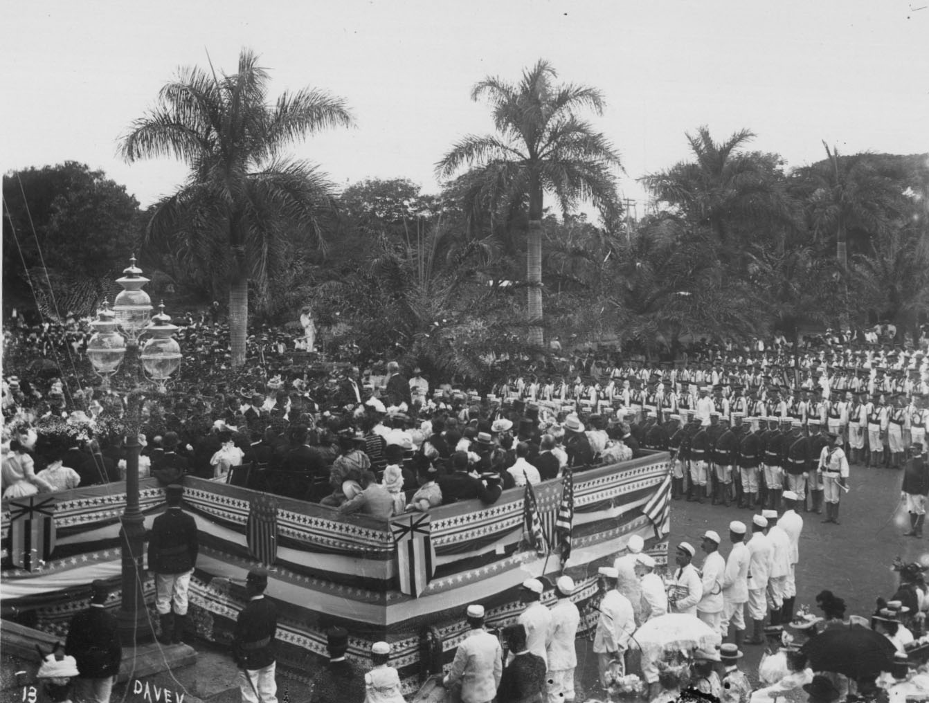 Annexation of Hawaii. President Dole accepting the resolution Annexation from U.S. Minister Harold Smith.